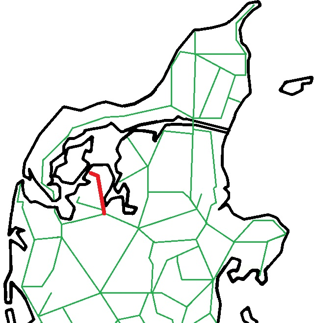 Map of railways in Northen Jutland in Denmark in 1932 with the now closed state railway from Skive to Glyngøre in red.